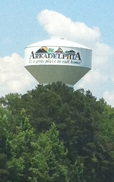 Water tower in Arkadelphia, Arkansas